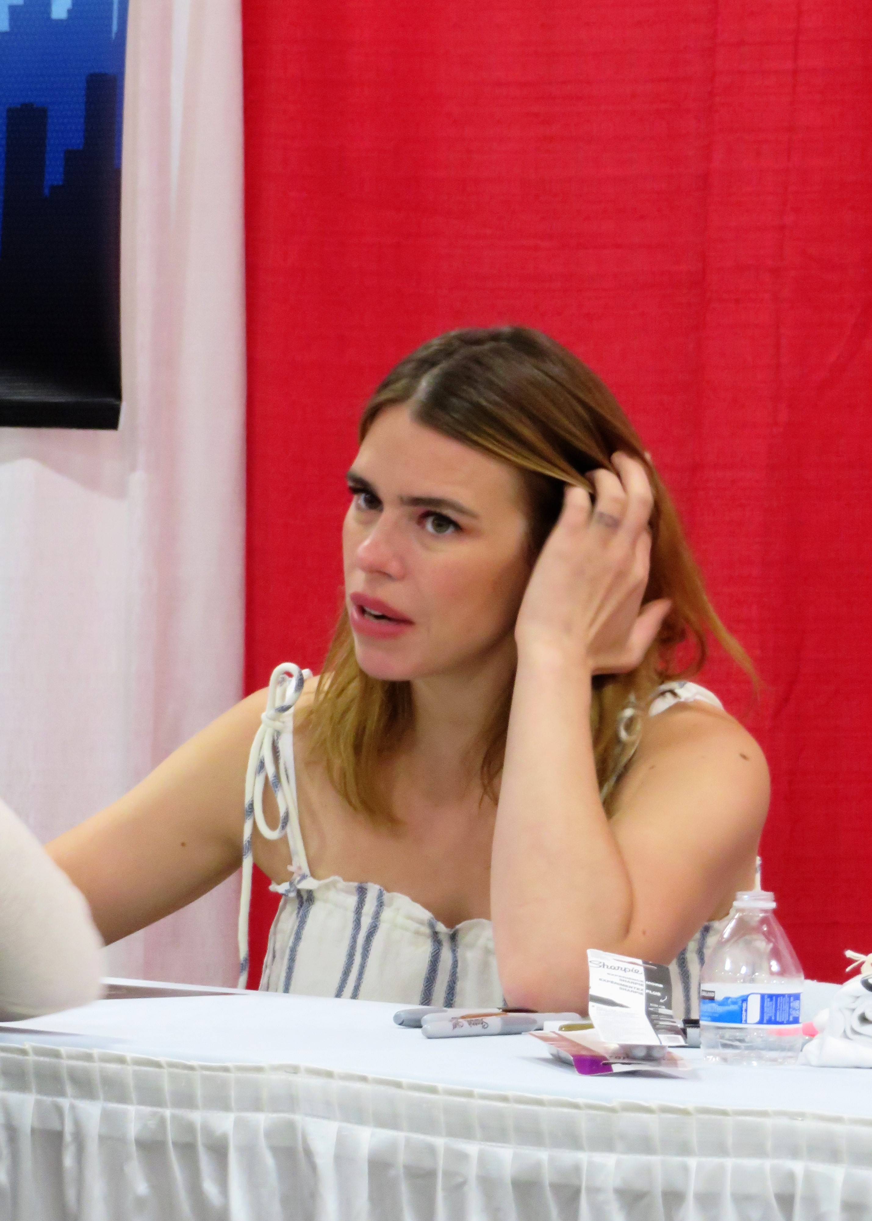 Billie Piper in May 2017